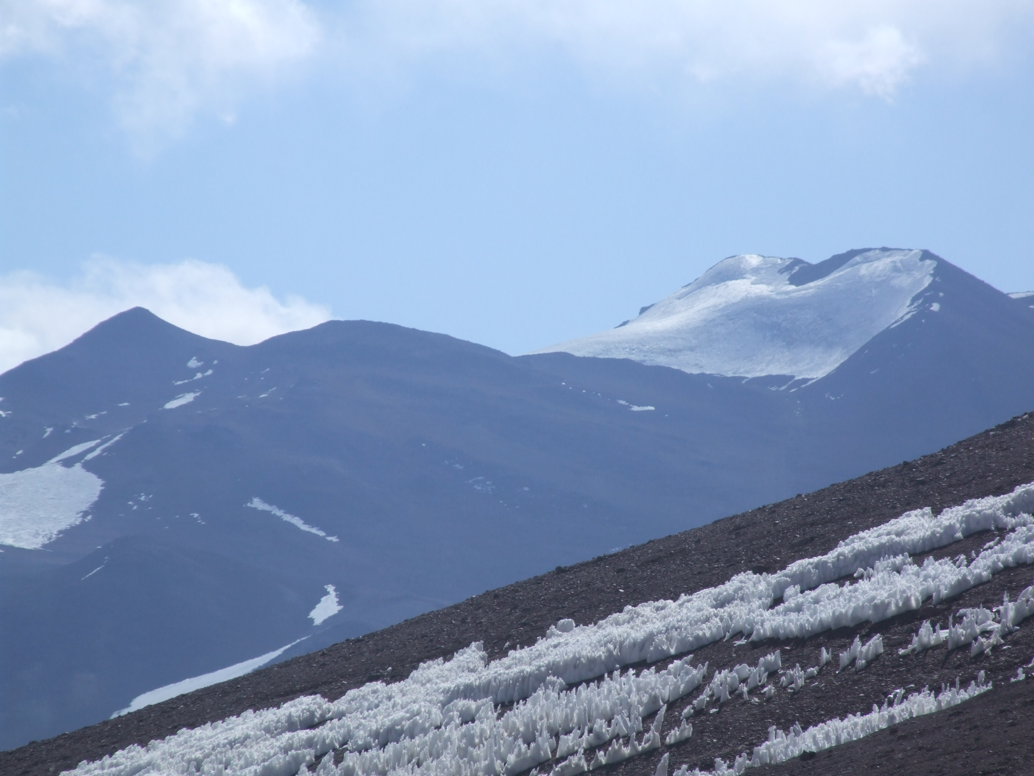 Baboso from the East